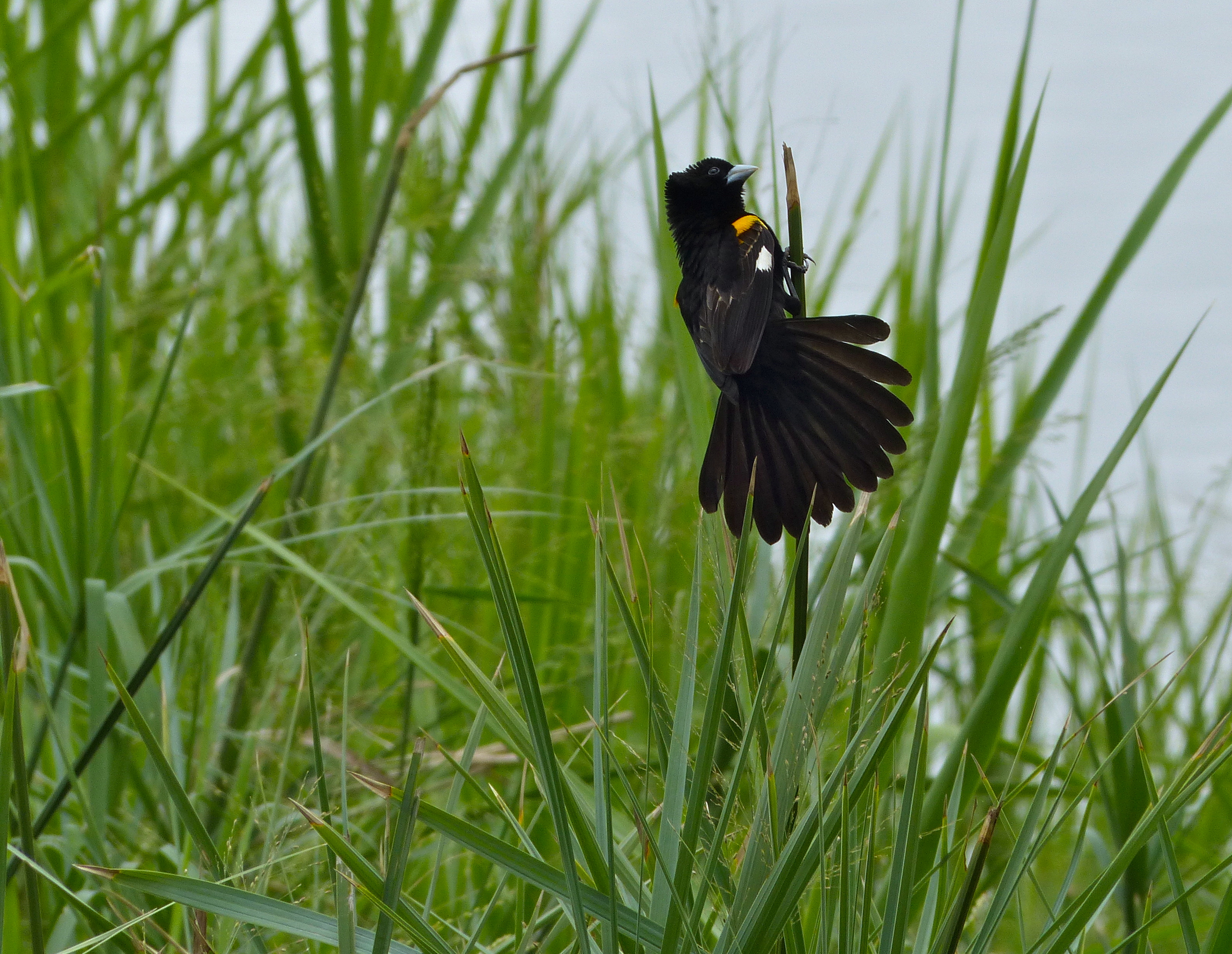 Ratel Pan Hide, S39 Road North of Satara, Kruger NP, SOUTH AFRICA